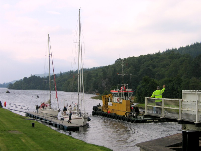 Aberchalder Swing Bridge, over the Caledonian Canal, Scotland. Looking south towards Loch Oich.